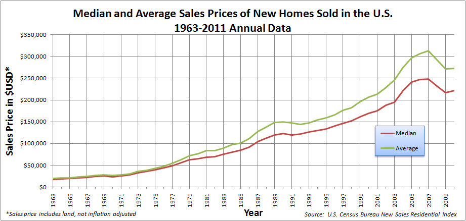 A graph showing the "Median and Average Sales Prices of New Homes Sold in United States". It shows the annual data from 1963 through 2008. It should be noted that the sales price includes the land. This graph is made using the data from [1] . The graph was made in excel.